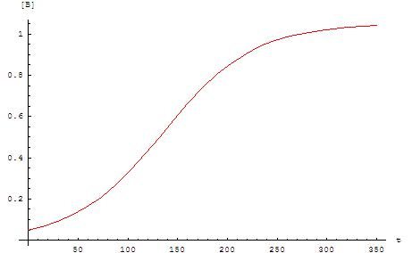 It shows concentration of a product against time in an autocatalytical reaction.